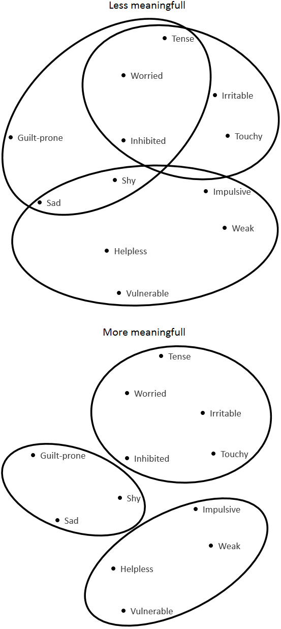 Possible groupings of traits in the domain of neuroticism into facets. Overlapping facets are less meaningfull Based on: Figure 1 in Paul Costa, Jr. & Robert R. McCrae (1995): 'Domains and Facets: Hierarchical Personality Assessment Using the Revised NEO Personality Inventory' in Journal of Personality Assessment, Volume 64, Issue 1, p. 21-50